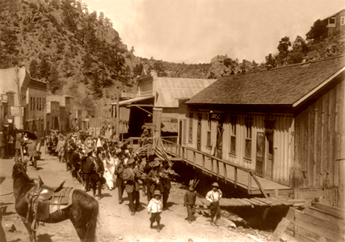 Cinco de Mayo celebration, in Mogollon, New Mexico, in 1914